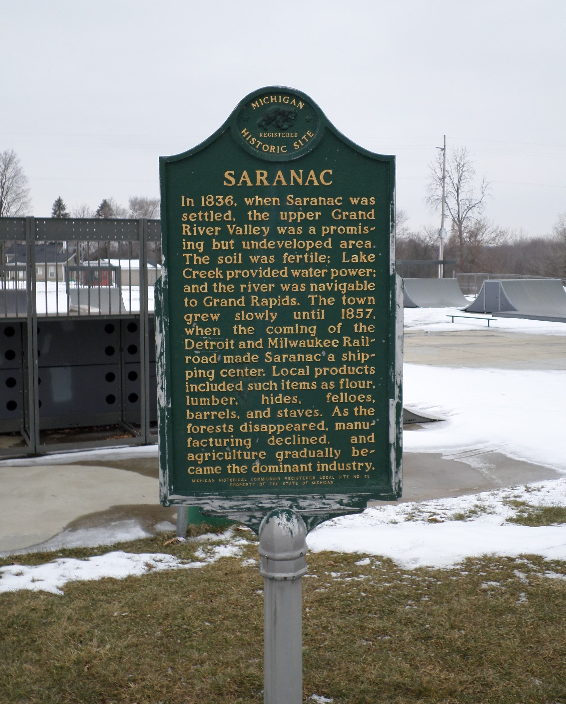 A plaque honoring the village of Saranac, located in Scheid Park in Saranac, MI.